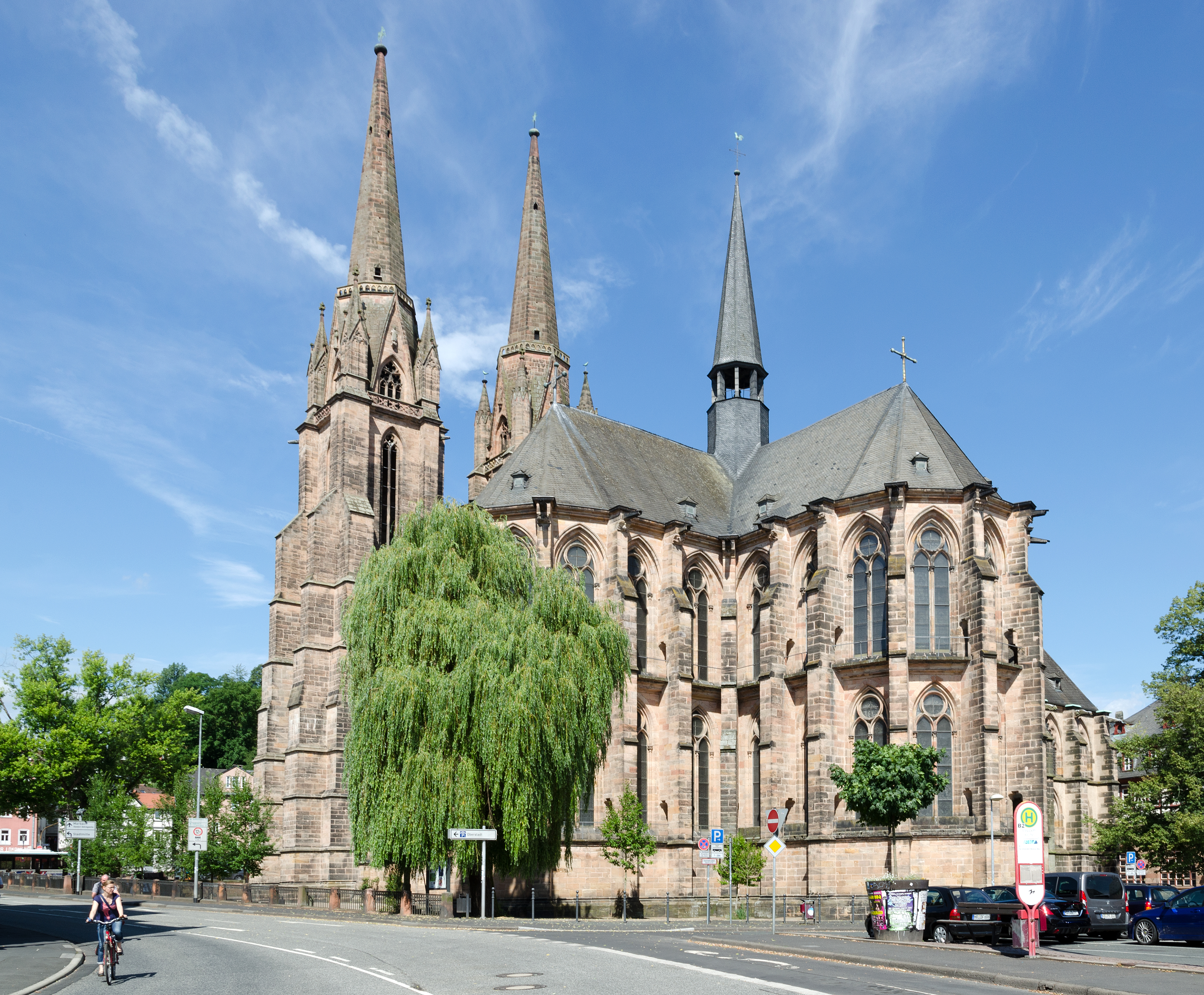 St. Elizabeth's Church in Marburg